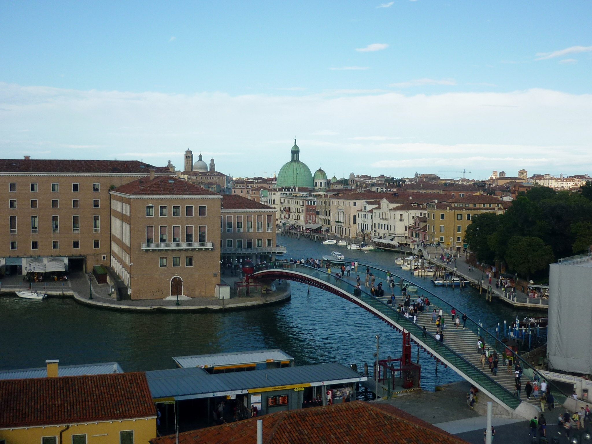 Ponte della Costituzione in Venice, which connects the railwaystation with Piazzale Roma